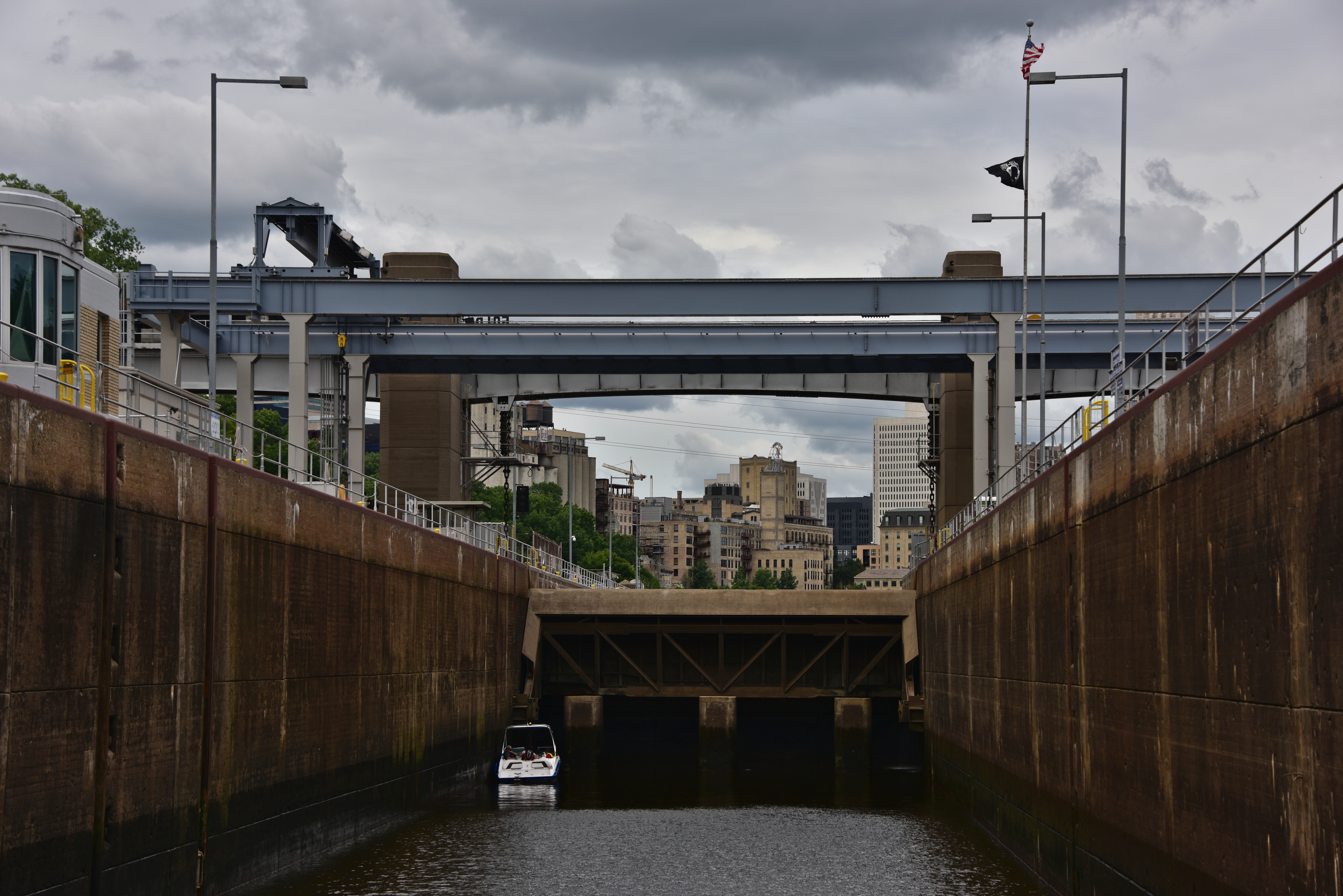 The St. Anthony Falls Lower Lock in downtown Minneapolis.